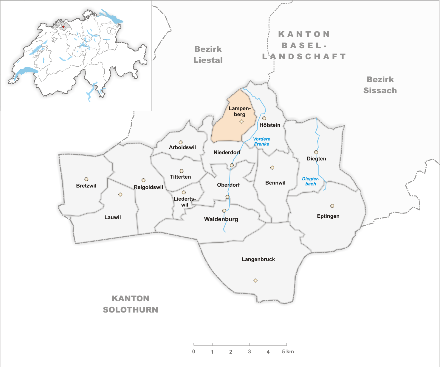 Municipality Lampenberg